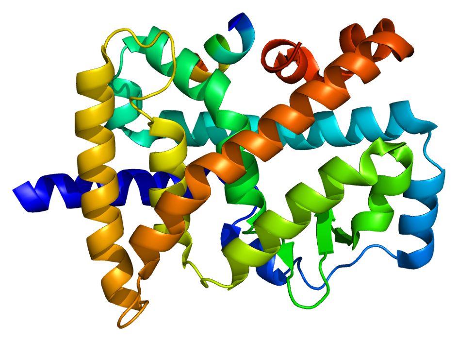 Structure of the RORB protein. Based on PyMOL rendering of PDB 1k4w.